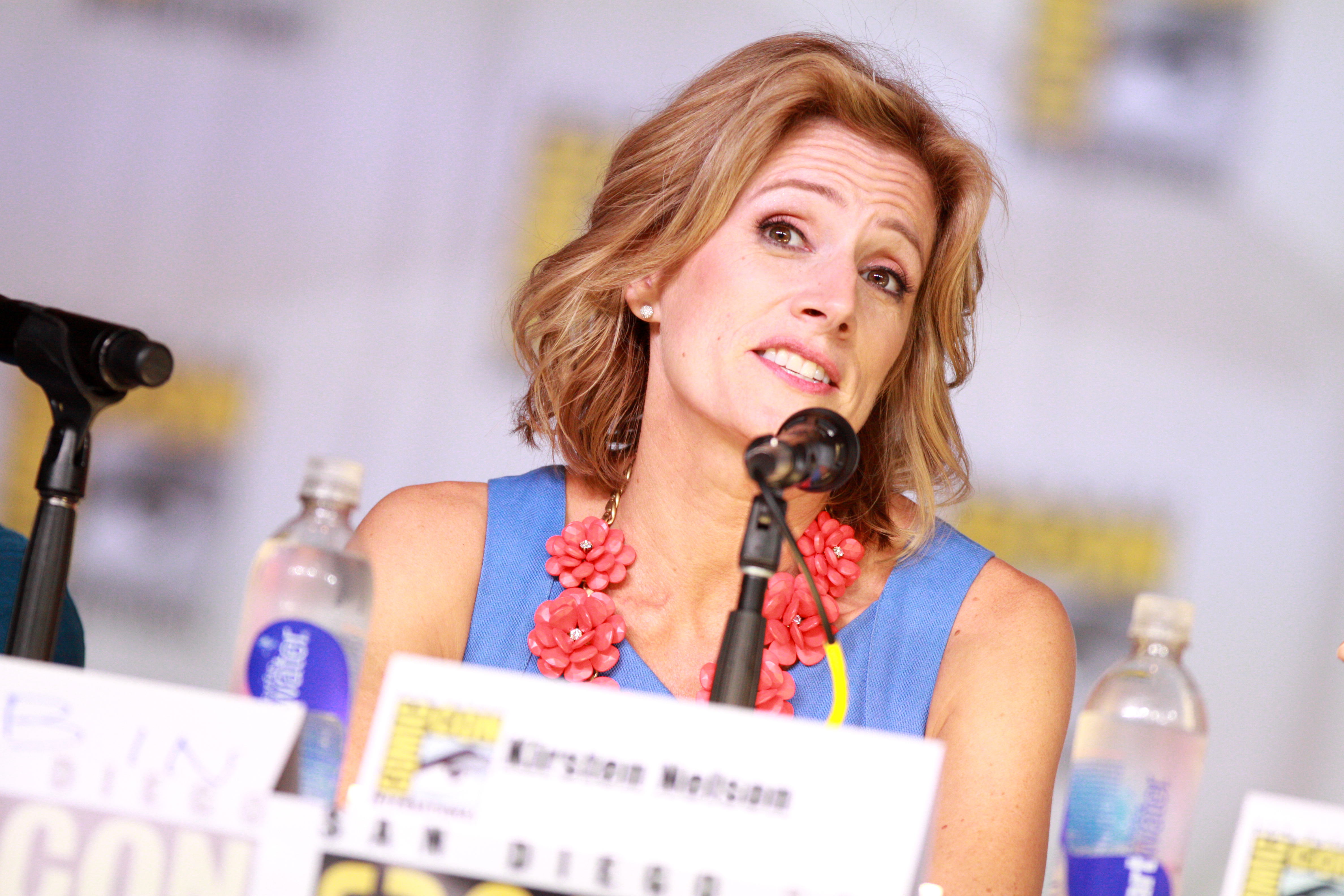 Kirsten Nelson speaking at the 2013 San Diego Comic Con International, for "Psych", at the San Diego Convention Center in San Diego, California.